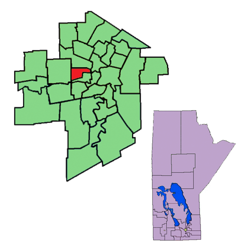 The 1999-2011 boundaries for the Minto electoral district highlighted in red.